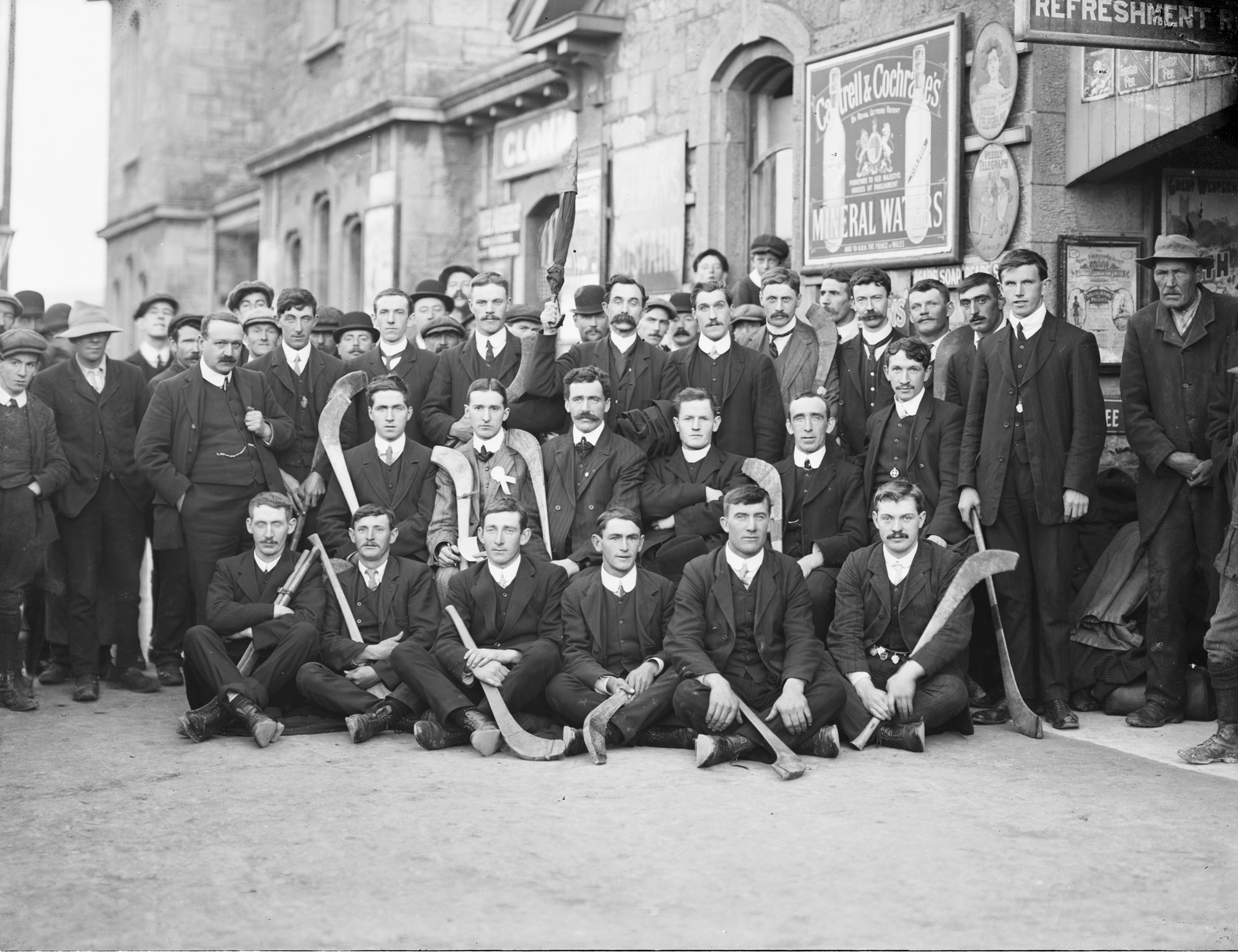 The Tipperary Hurling Team outside Clonmel Train Station. DannyM8 has identified the chap in the centre of the middle row as the famous Tom Semple, for whom Semple Stadium in Thurles was named. Date: Friday, 26 August 1910 NLI Ref.: P_WP_2231